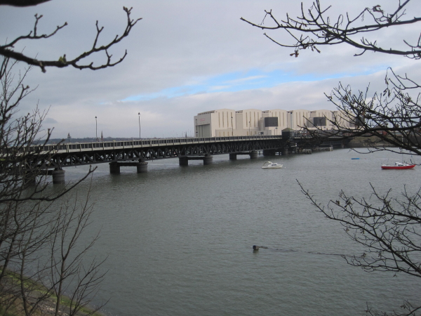 Walney Bridge, Barrow-in-Furness viewed in March 2011 from Walney Island